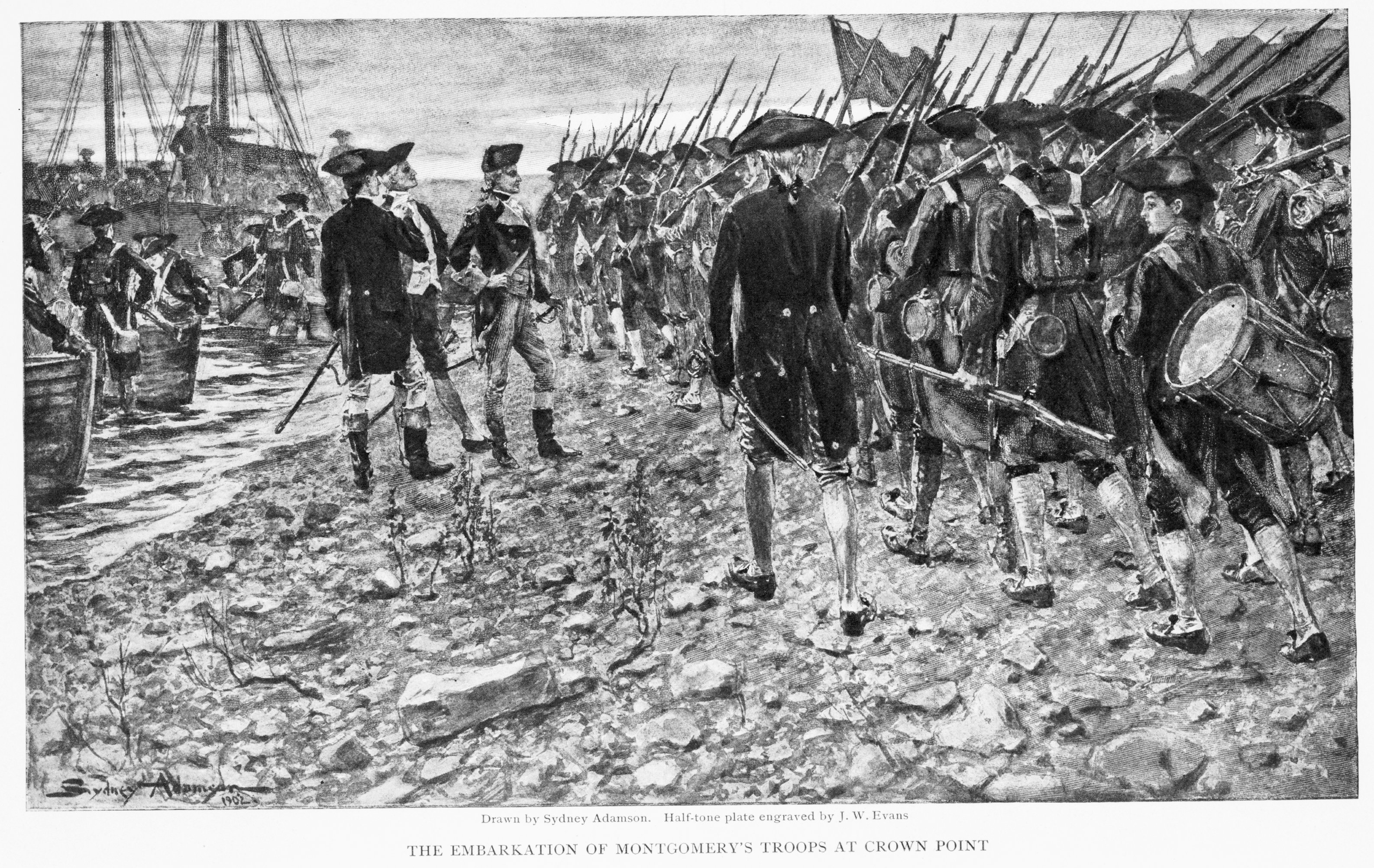 The Embarkation of Montgomery's troops at Crown Point. Richard Montgomery and troops on shore at Crown Point, New York, en route for invasion of Canada.